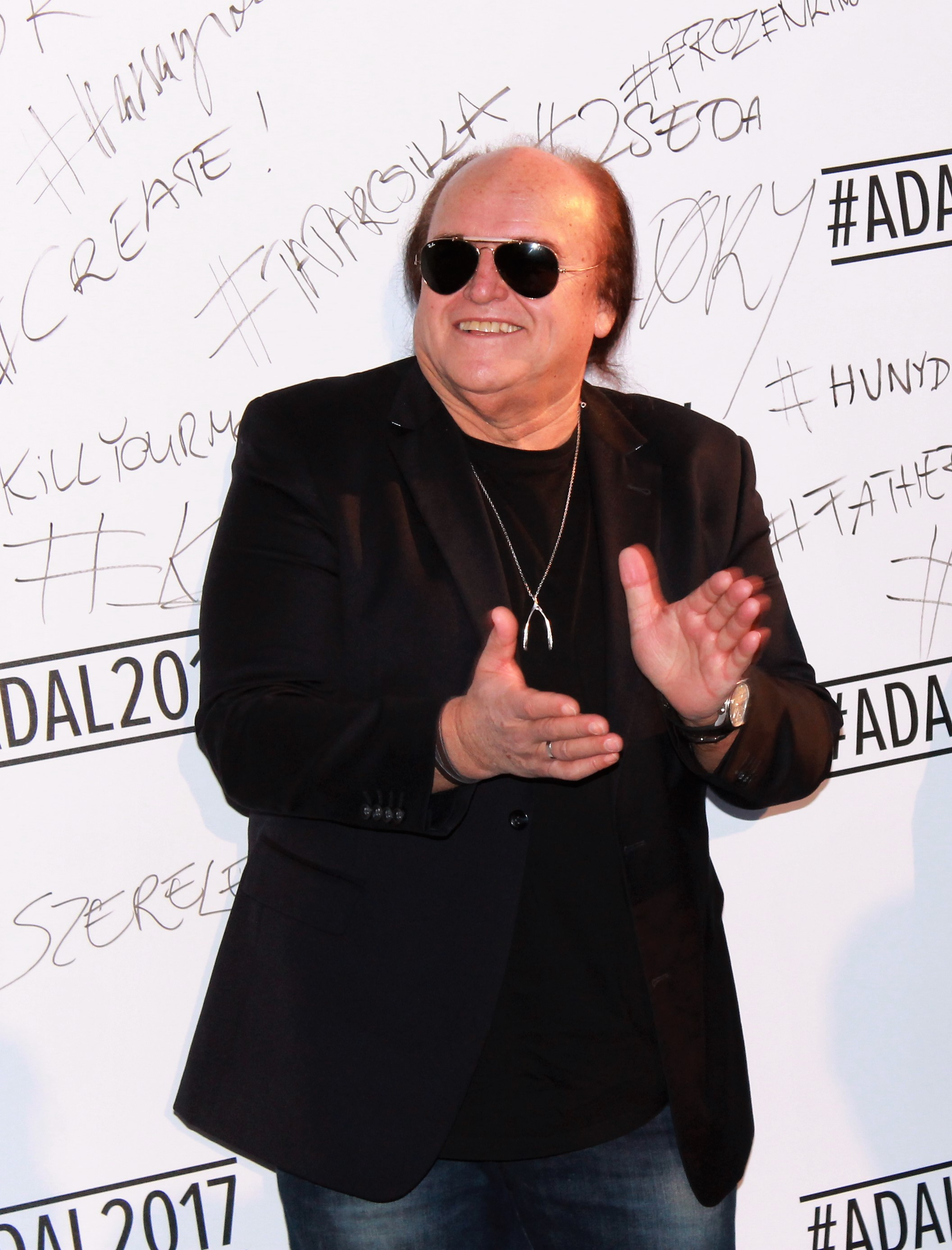 Károly Frenreisz, one of the jurors of A Dal 2017